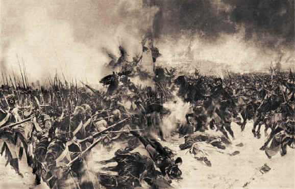 Battle of Preussisch Eylau painting by L. Flameng